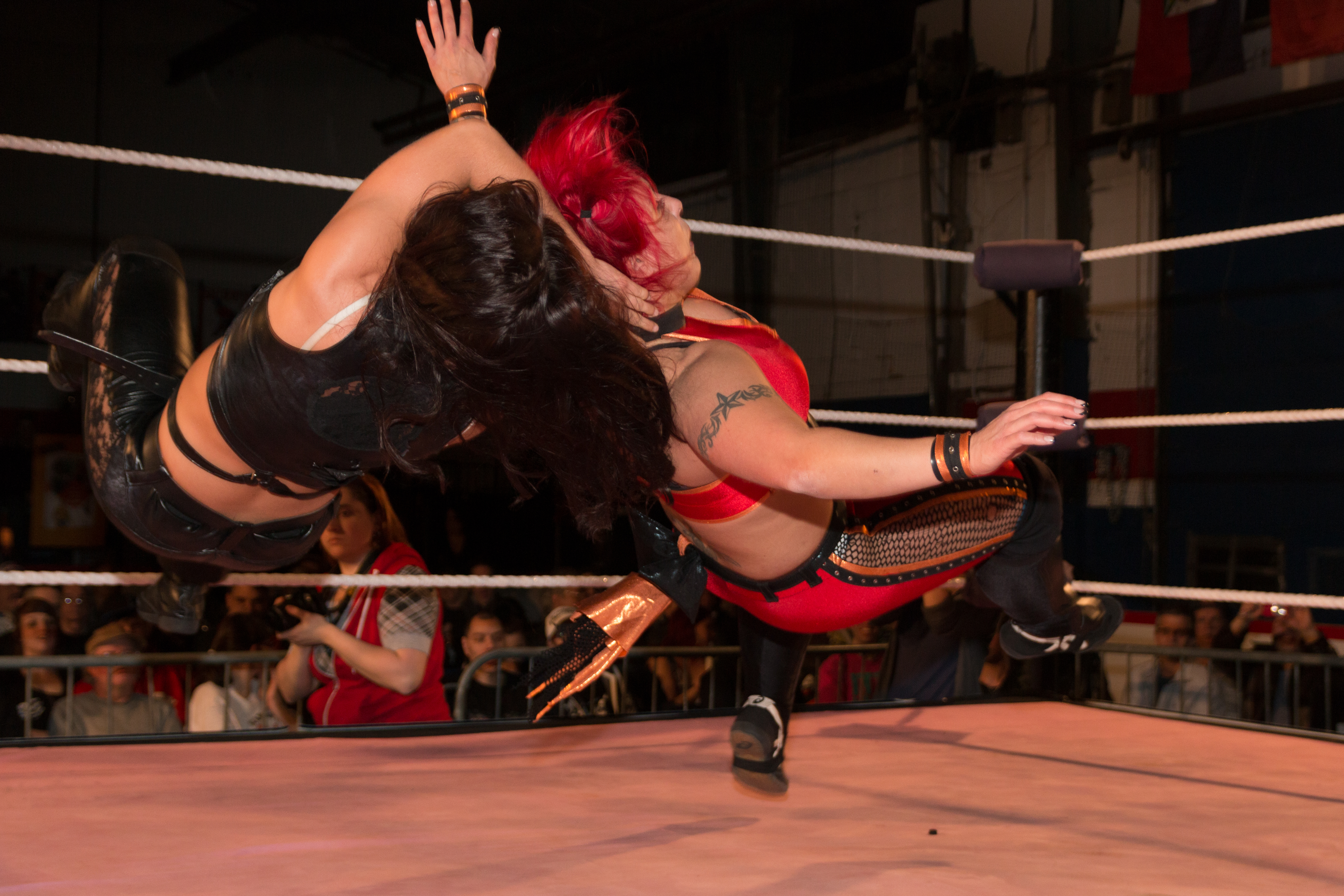 Nikki Storm (in black) hitting a Swinging fisherman's neckbreaker on Lufisto at an NCW Femme Fatales show in April 2014